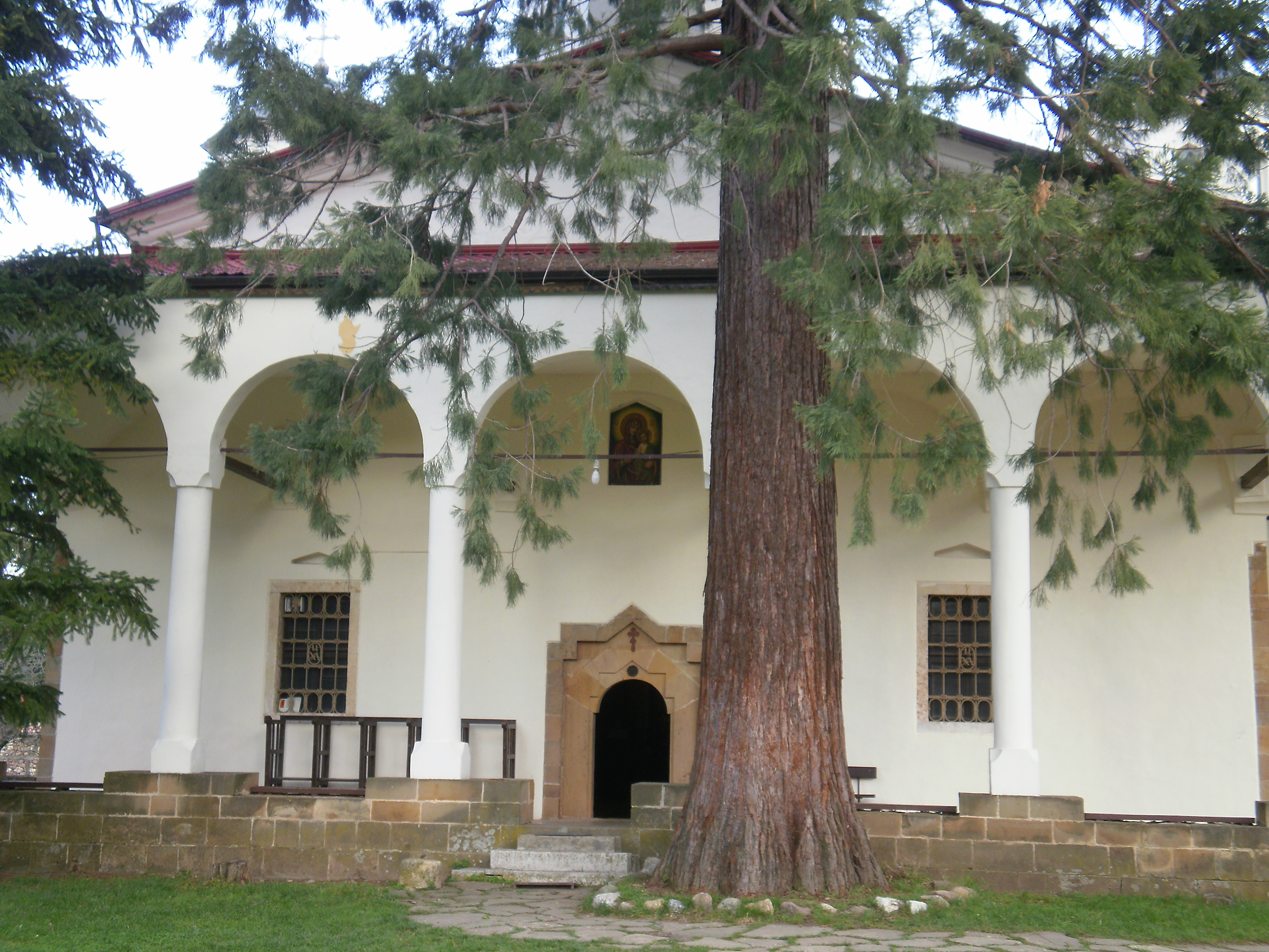 Lopushanski Monastery, Bulgaria